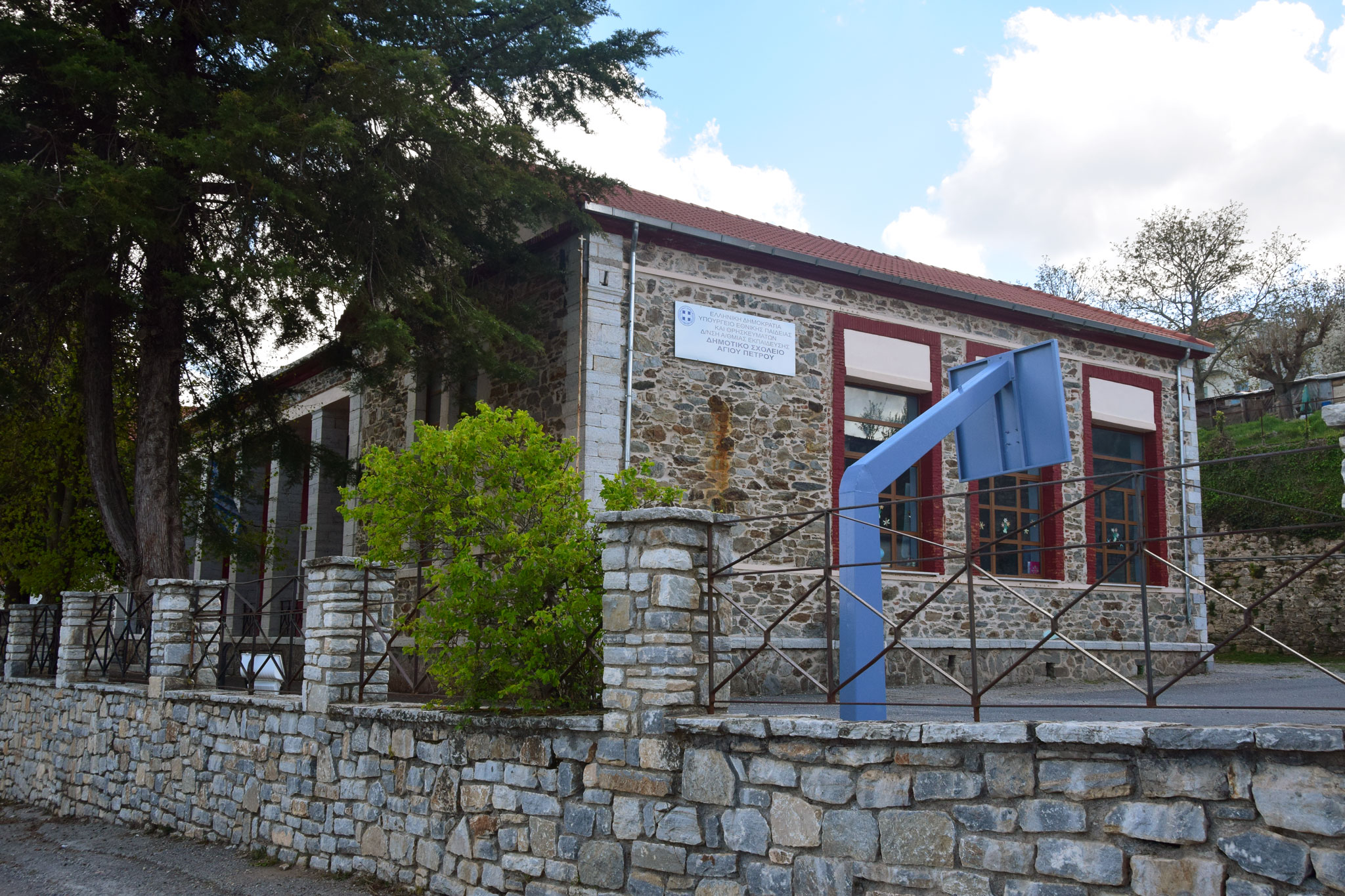 Elementary school building in Agios Petros of Arcadia, Greece.